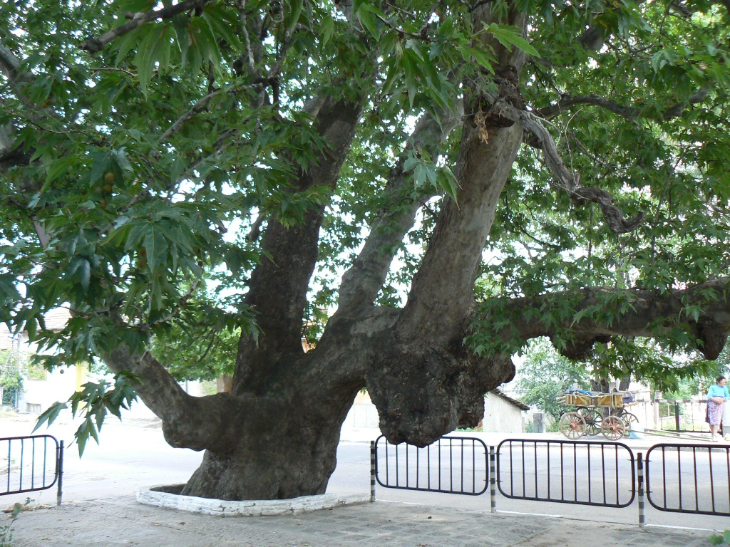 300-year-old plane tree in village Cherven (district Plovdiv), Bulgaria